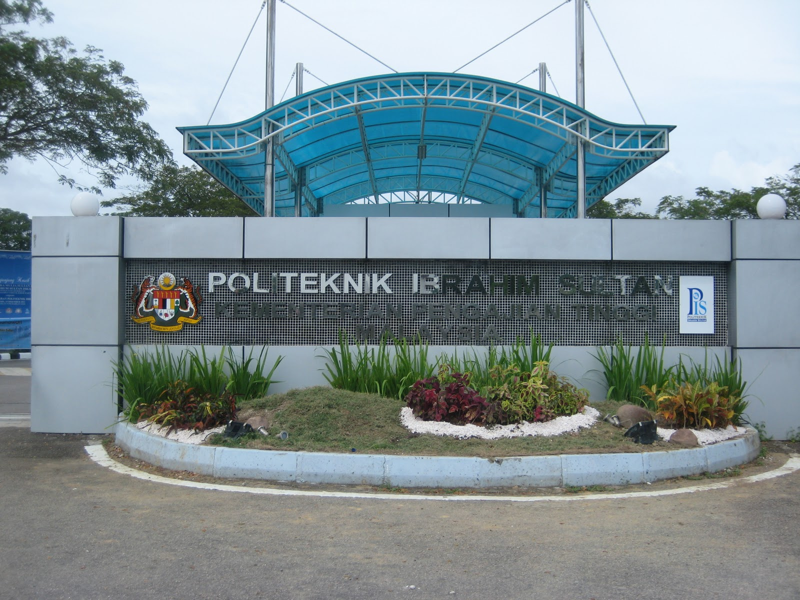 The main entrance gate of PIS